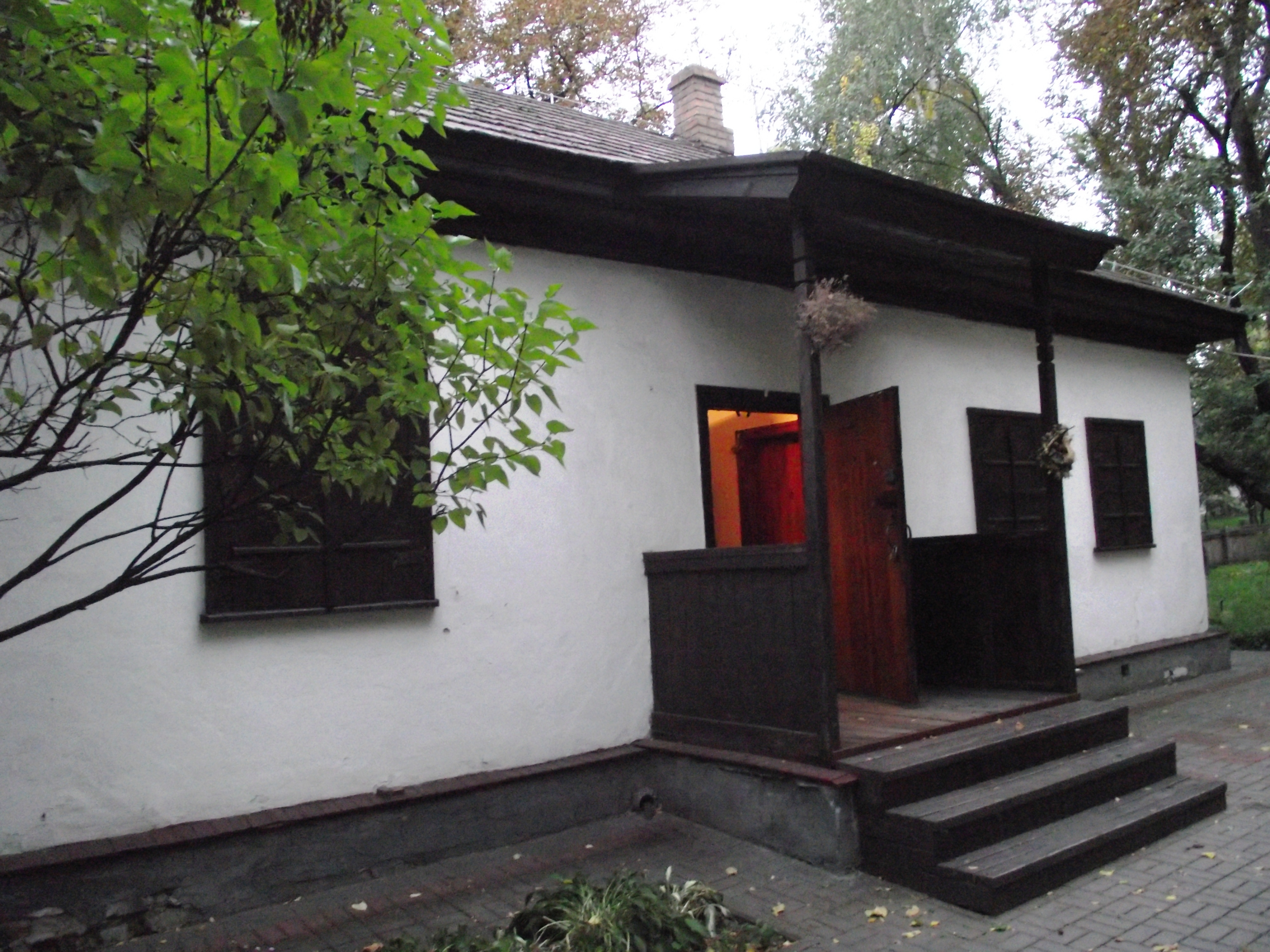 The house in which lived the poet T. G. Shevchenko in 1859.